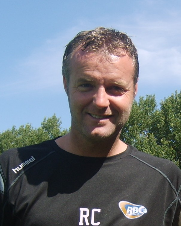 Rini Coolen in Delden (juli 2009) tijdens het trainingskamp van RBC Roosendaal